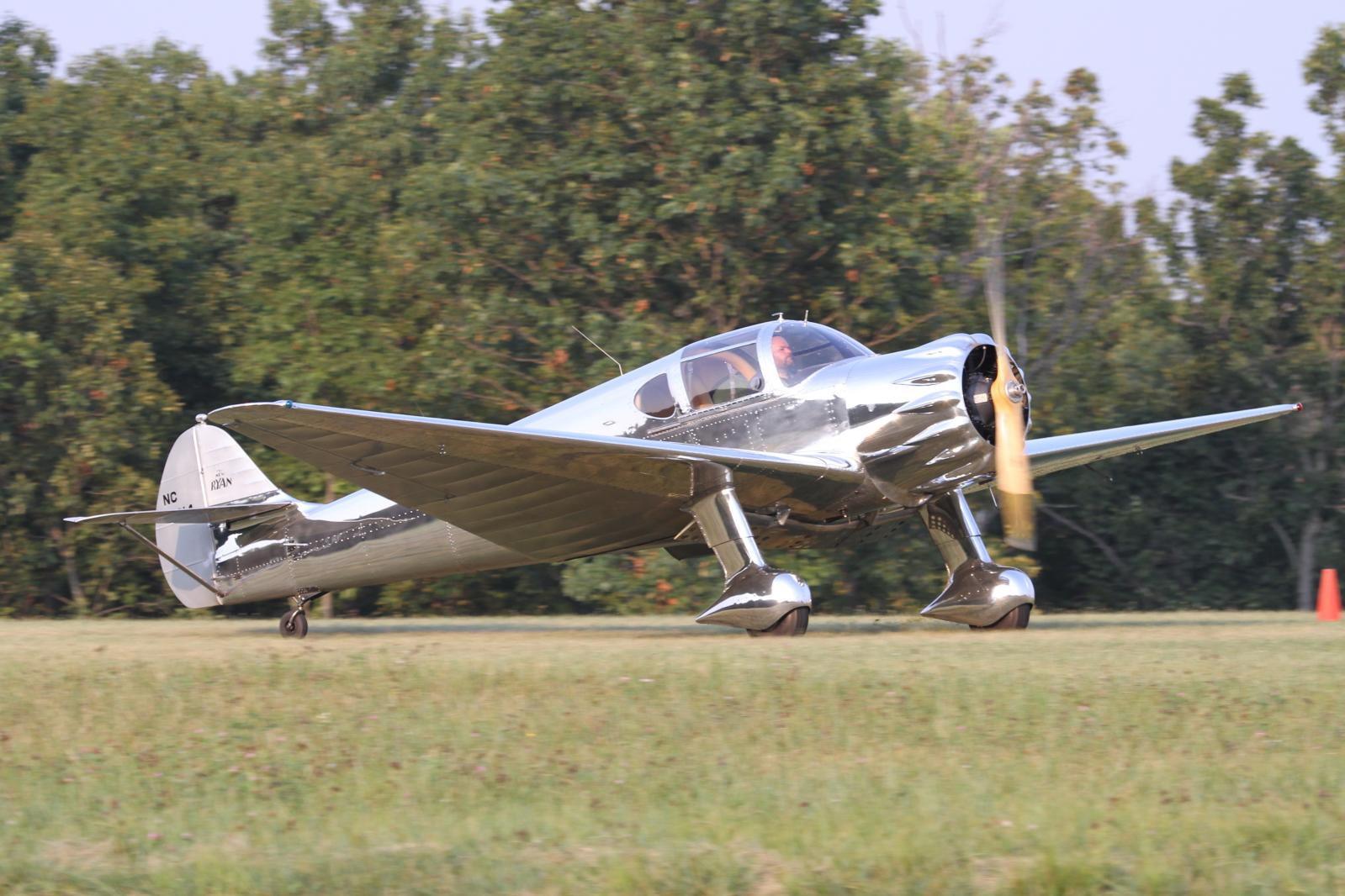 Ryan SCW-145 (NC18914)